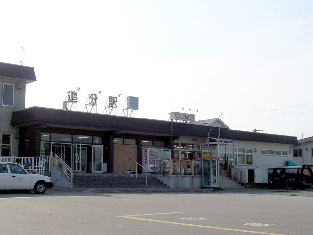 Oiwake Station in Muroran Main Line, Japan